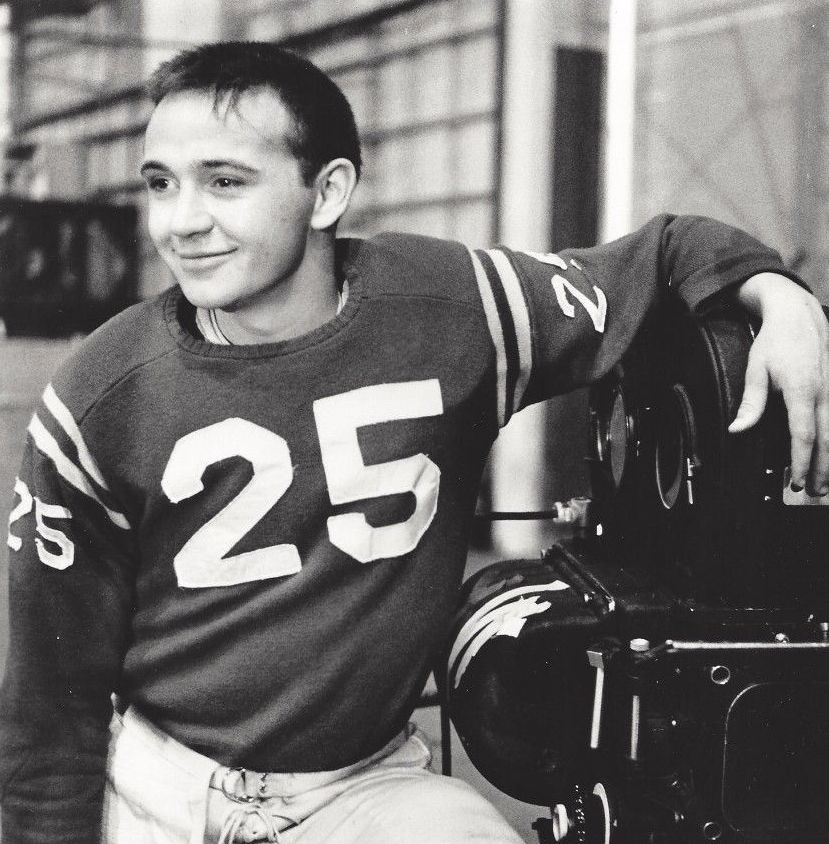 Photo of Tommy Kirk from the Walt Disney film Son of Flubber.